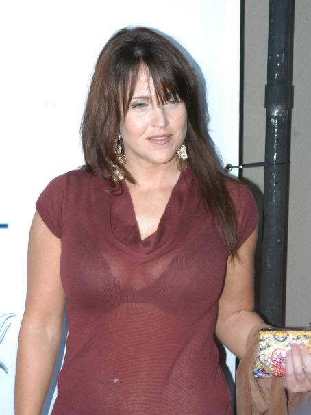 Michelle Avanti at Bryn Pryor's Corruption Party, November 11 2006